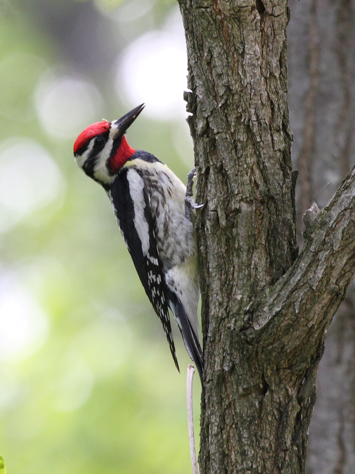 Yellow-bellied Sapsucker, (Sphyrapicus varius)